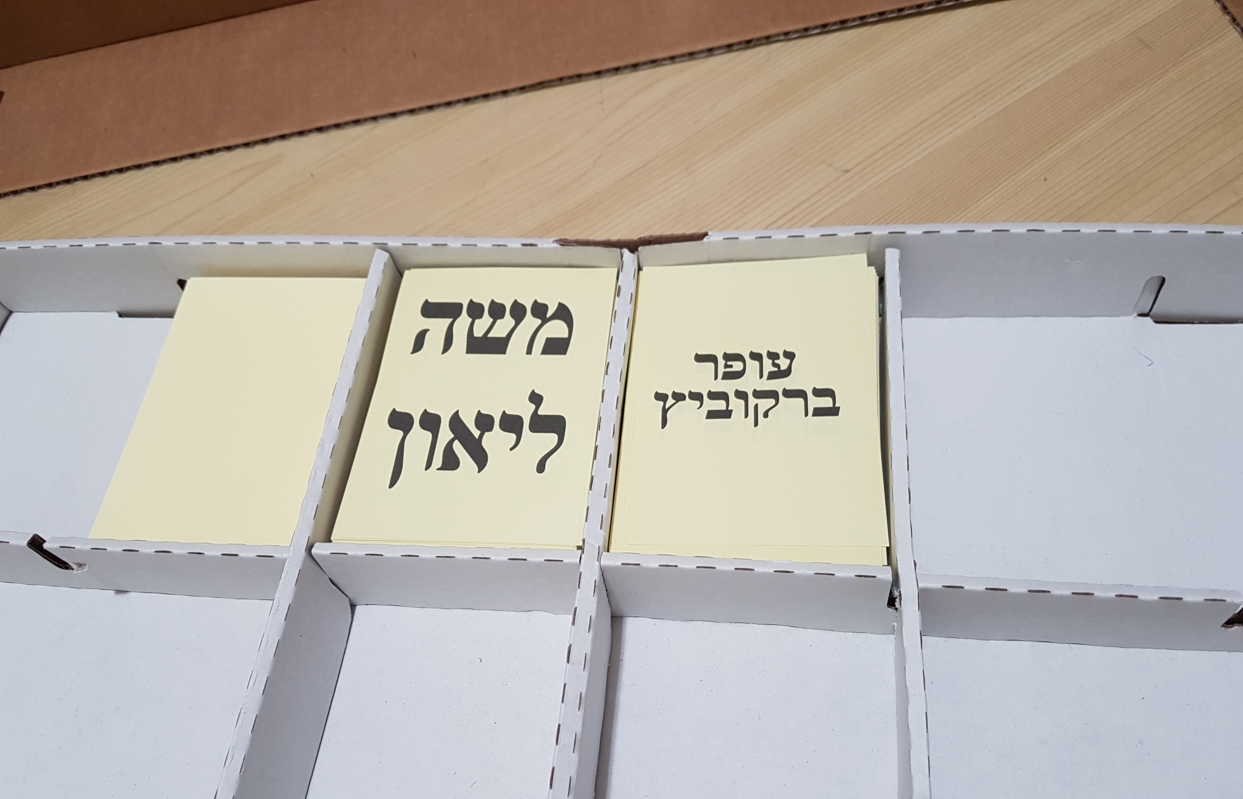 Ballot papers in Jerusalem 2018-10-13 municipal run off election. Ofer Berkovitch on the right, Moshe Lion on the left.